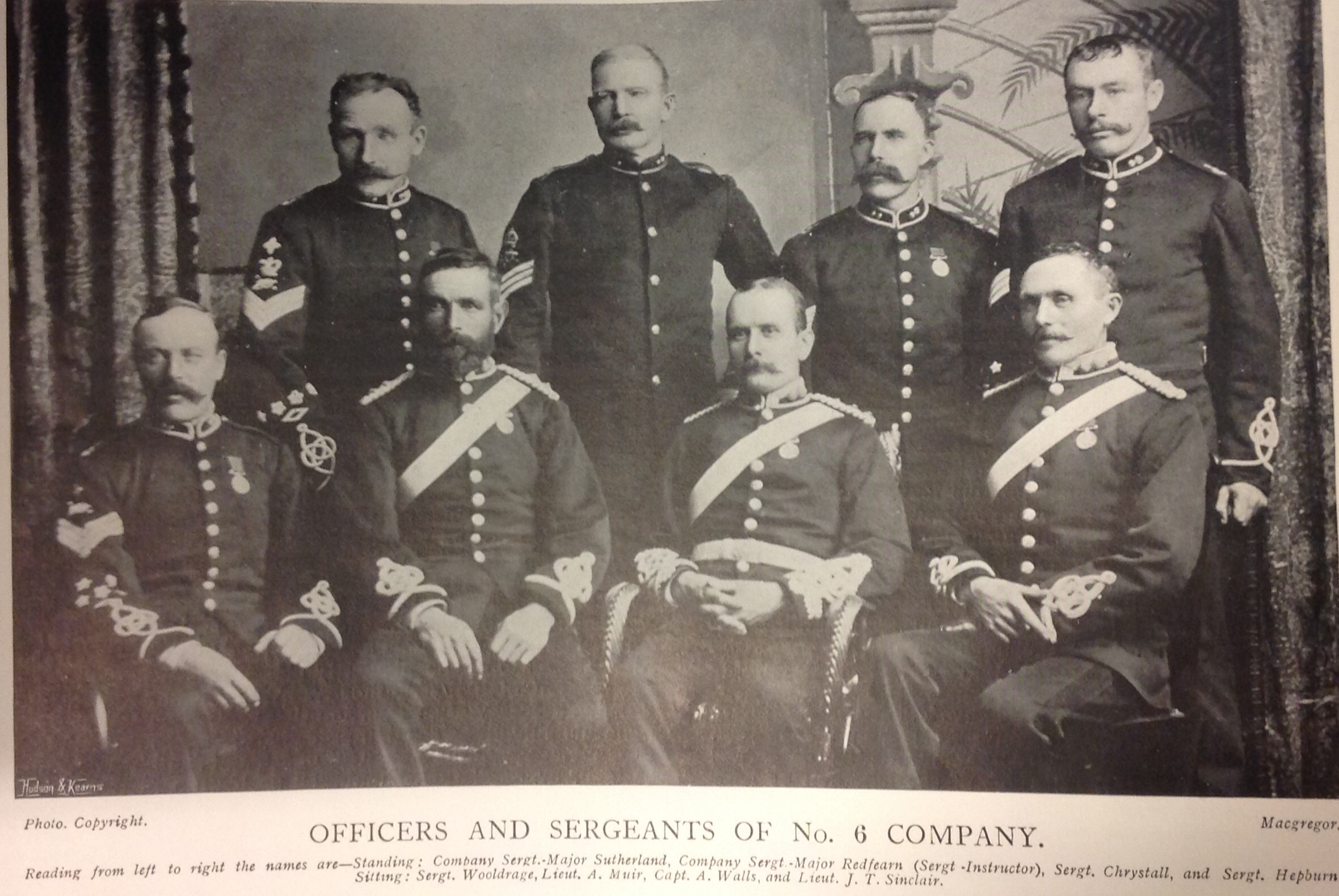 Number 6 Company, 1st Orkney Royal Garrison Artillery (Volunteers), from the Navy and Army Illustrated, October 1902